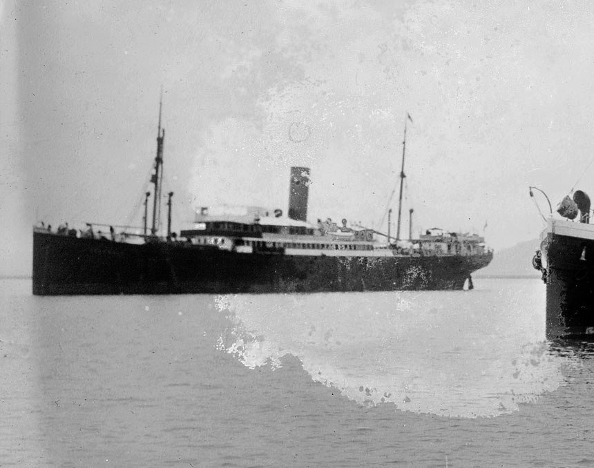 SS Odenwald at San Juan, Puerto Rico, in March 1915. She is being watched by the USLHT Myrtle, whose bow is to the right.